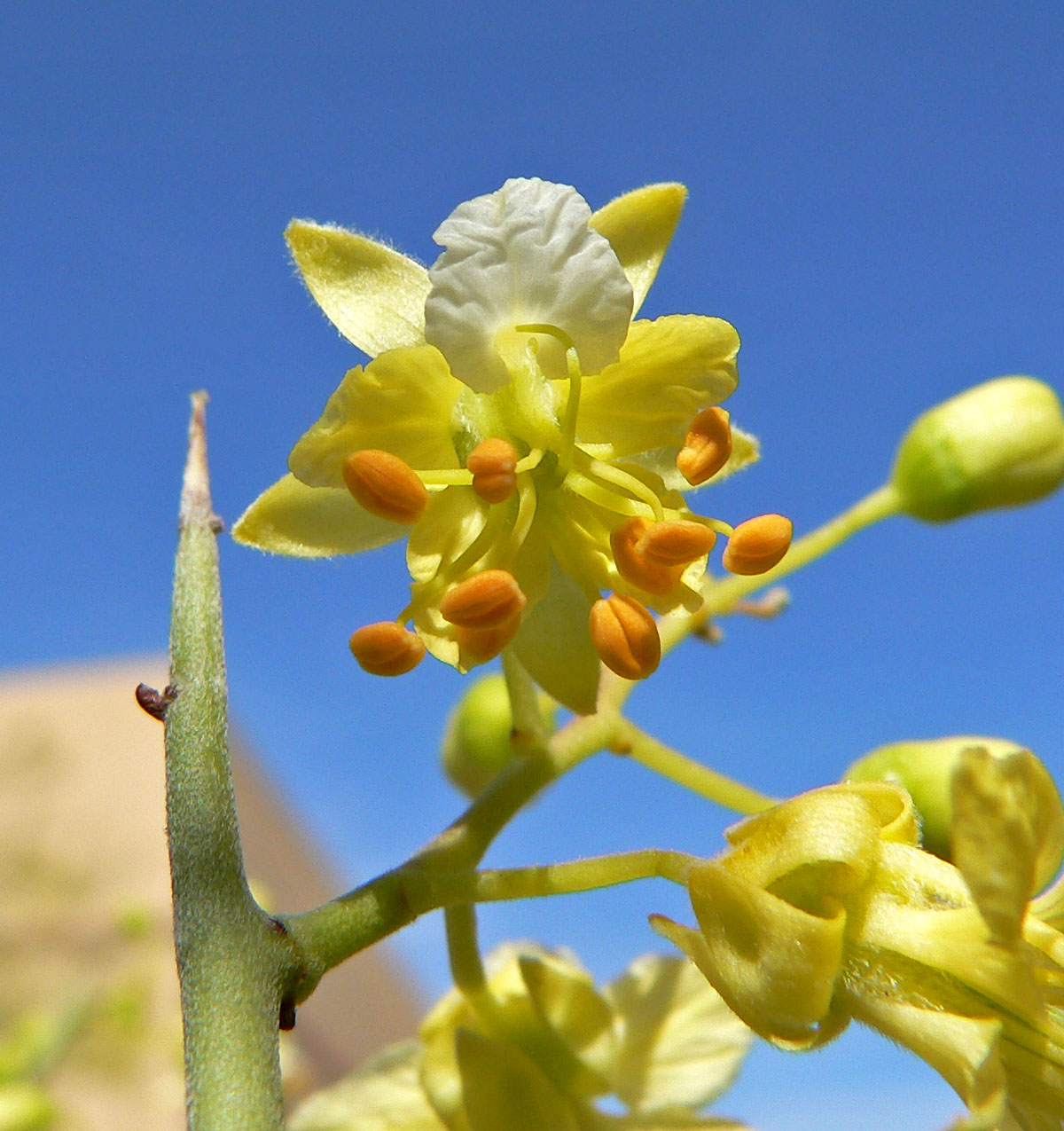 Photo of Parkinsonia microphylla (little-leaf palo verde) on the University of Nevada, Las Vegas campus